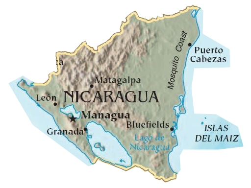 This is a map of El Salvador